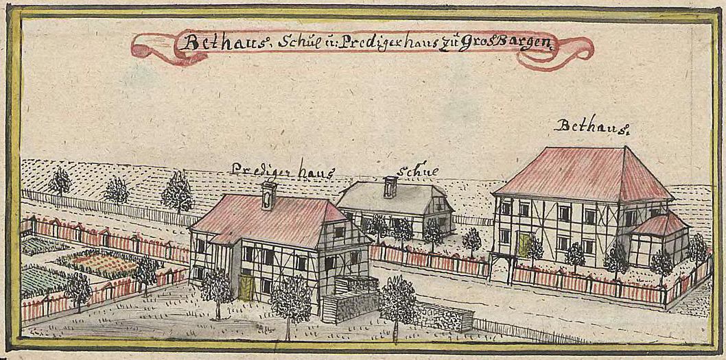 Protestant Chapel of Barkowo.